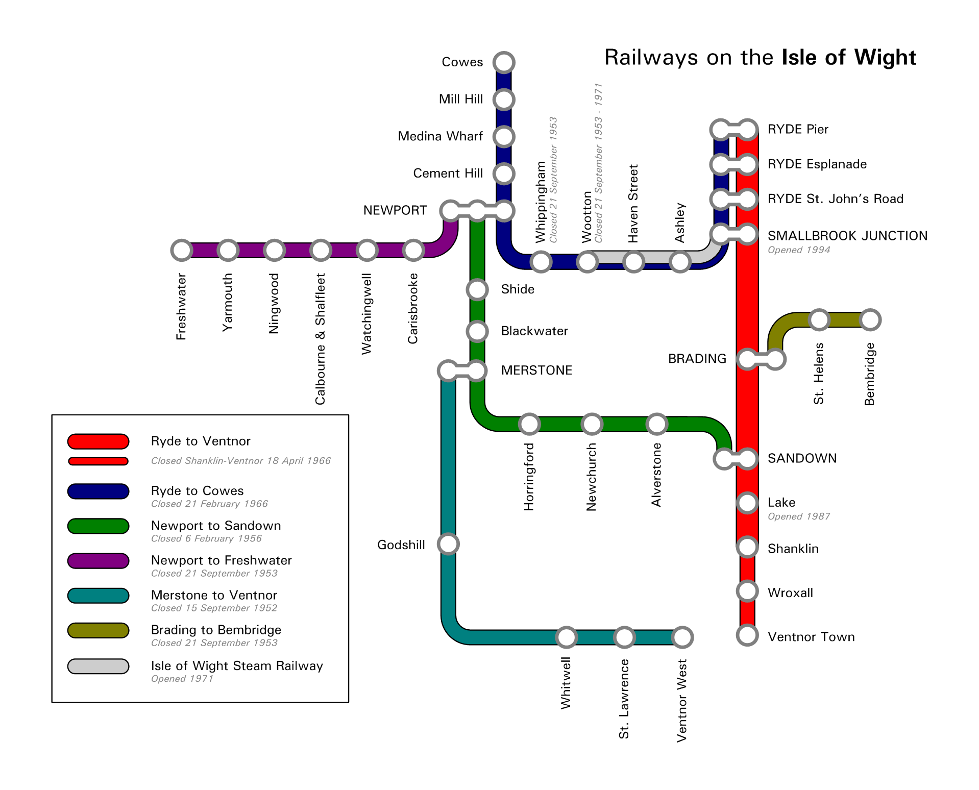 A diagram map of the British Railways lines on the Isle of Wight, UK, also showing closed lines and stations, open lines, reopened lines and new stations. This diagram map covers the systems now operated by Stagecoach Island Line and the Isle of Wight Steam Railway. Dates of closure are from Daniels G and Dench LA Passengers No More 2nd ed London: Ian Allan Publishing 1973 ISBN 0711004382. Dates of reopenings from Isle of Wight Steam Railway official website, accessed 17 January 2006. Dates of new stations from Isle of Wight Nostalgia accessed 17 January 2006.